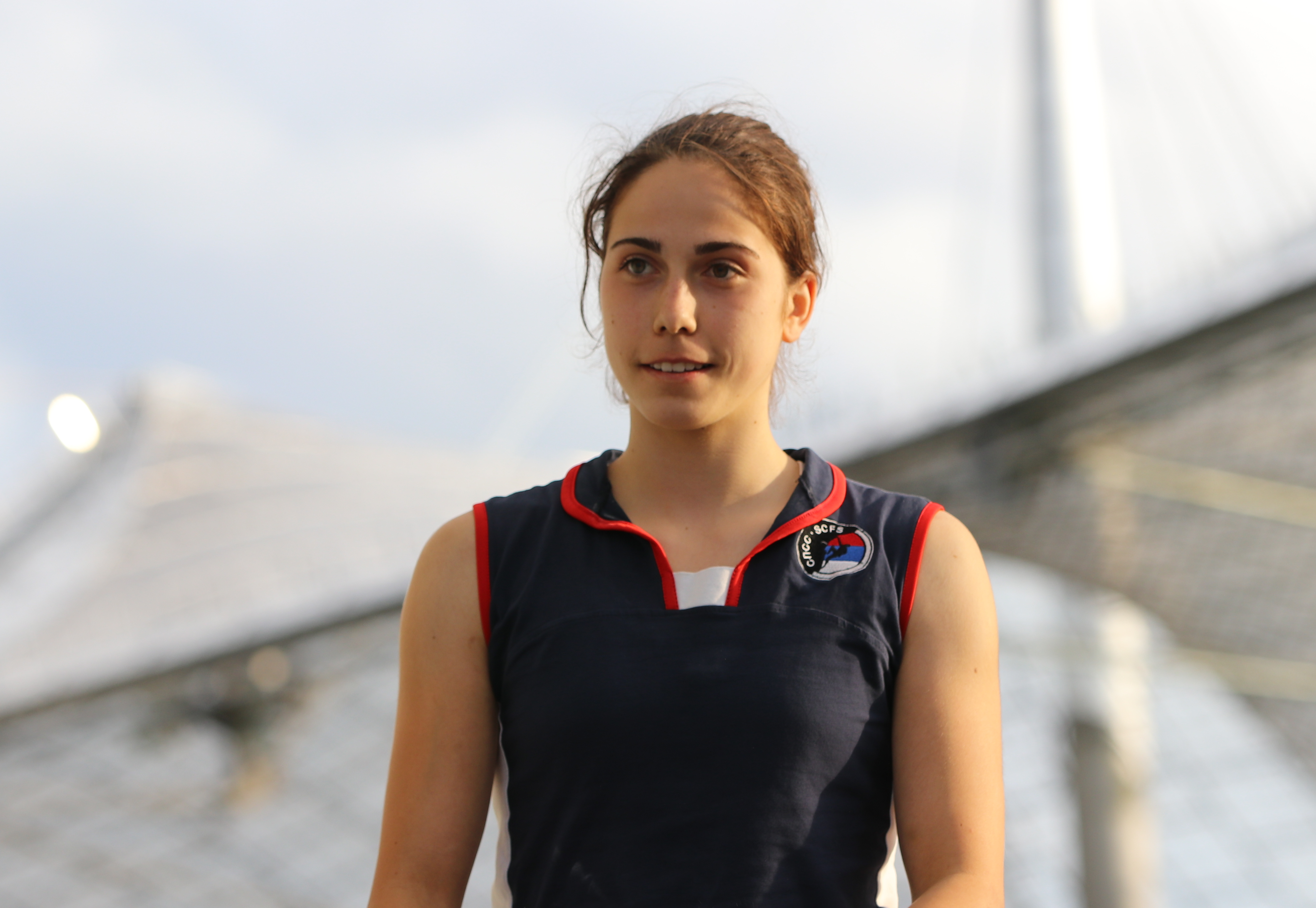 Staša Gejo, sports climber from Serbia, at the Boulder Worldcup 2017 in Munich, Germany